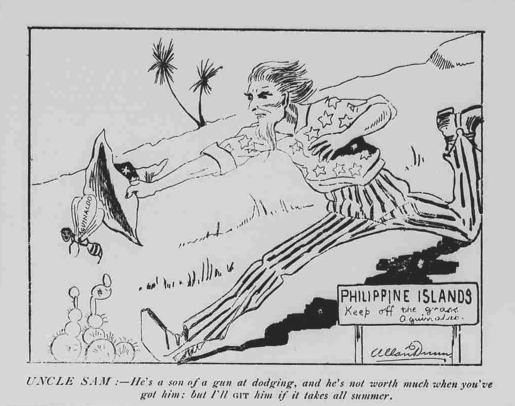 Personifying the United States, Uncle Sam chases a bee. Two years after this cartoon's publication, at the end of the Philippine-American War, Aguinaldo would surrender to the United States. Austin's Hawaiian Weekly, September 23, 1899, Page 7, Image 7 From the University of Hawaii at Manoa Library